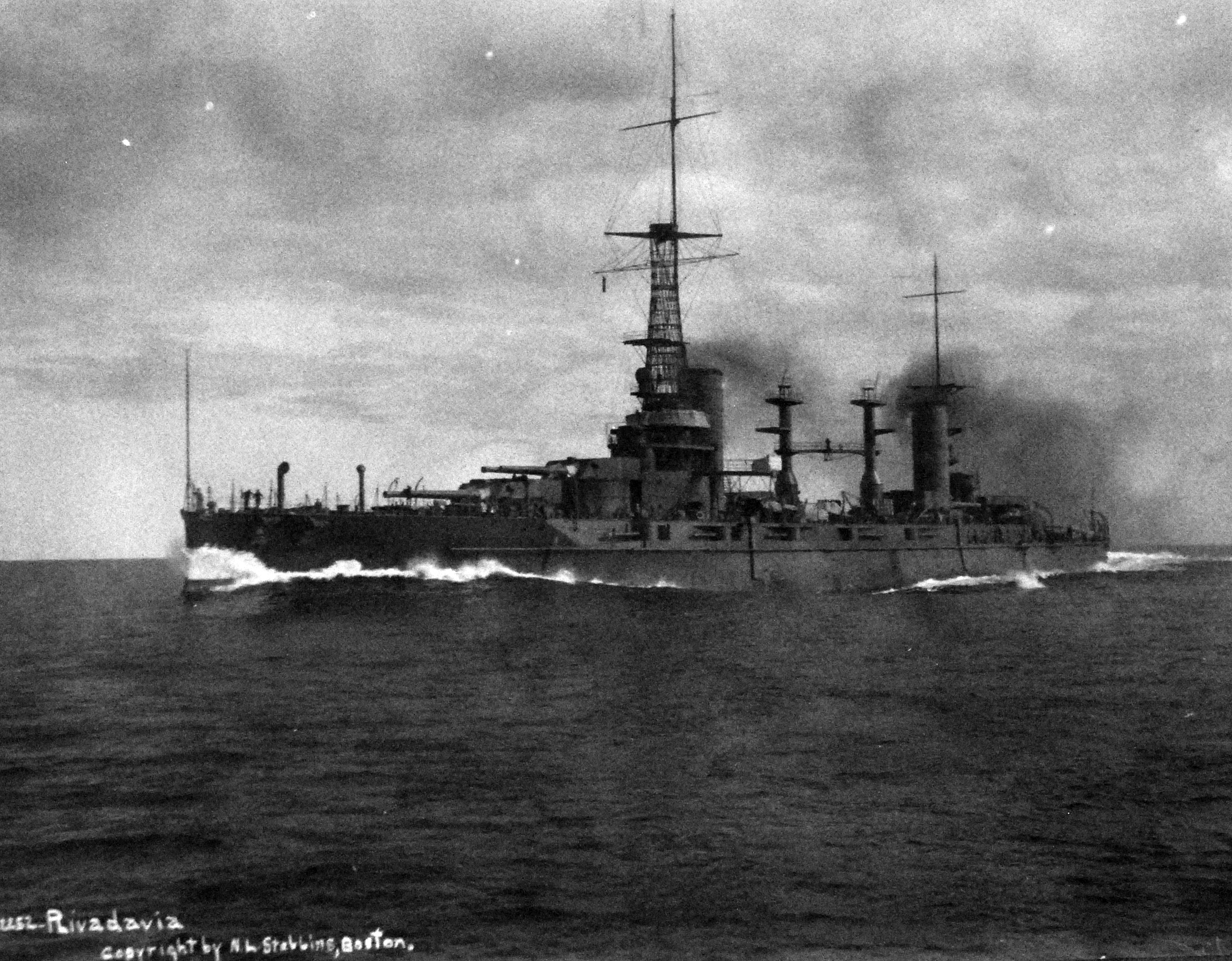 ARA Rivadavia on its speed trials, port side view